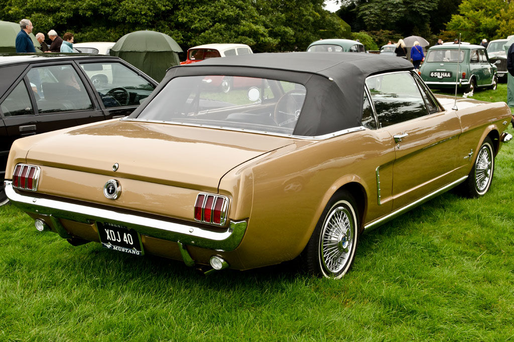 Arley Hall Classic Car Show 23/09/2012